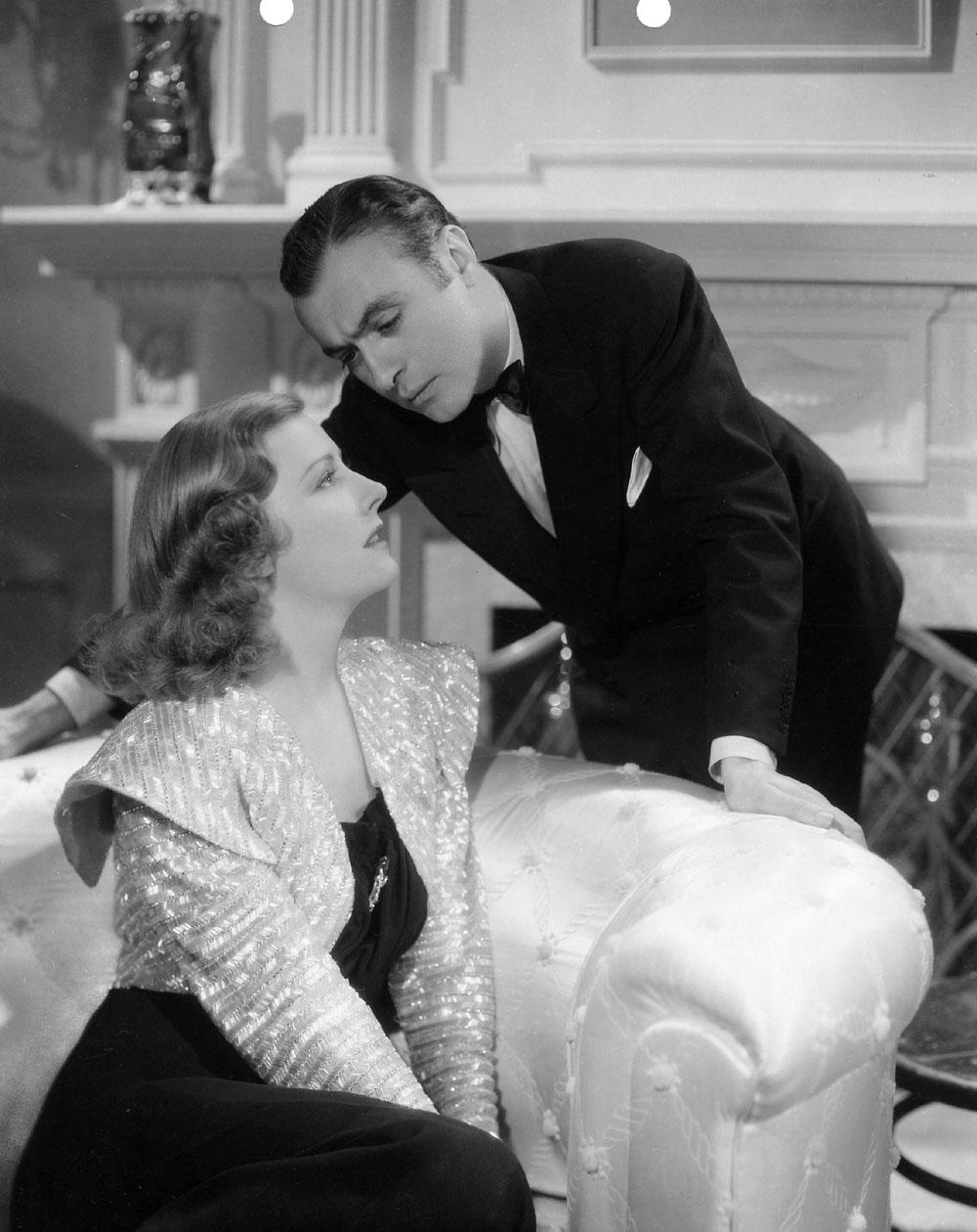 Charles Boyer & Irene Dunne in Love Affair - original image (damaged : see source) improved